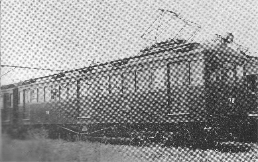 Hankyu 78